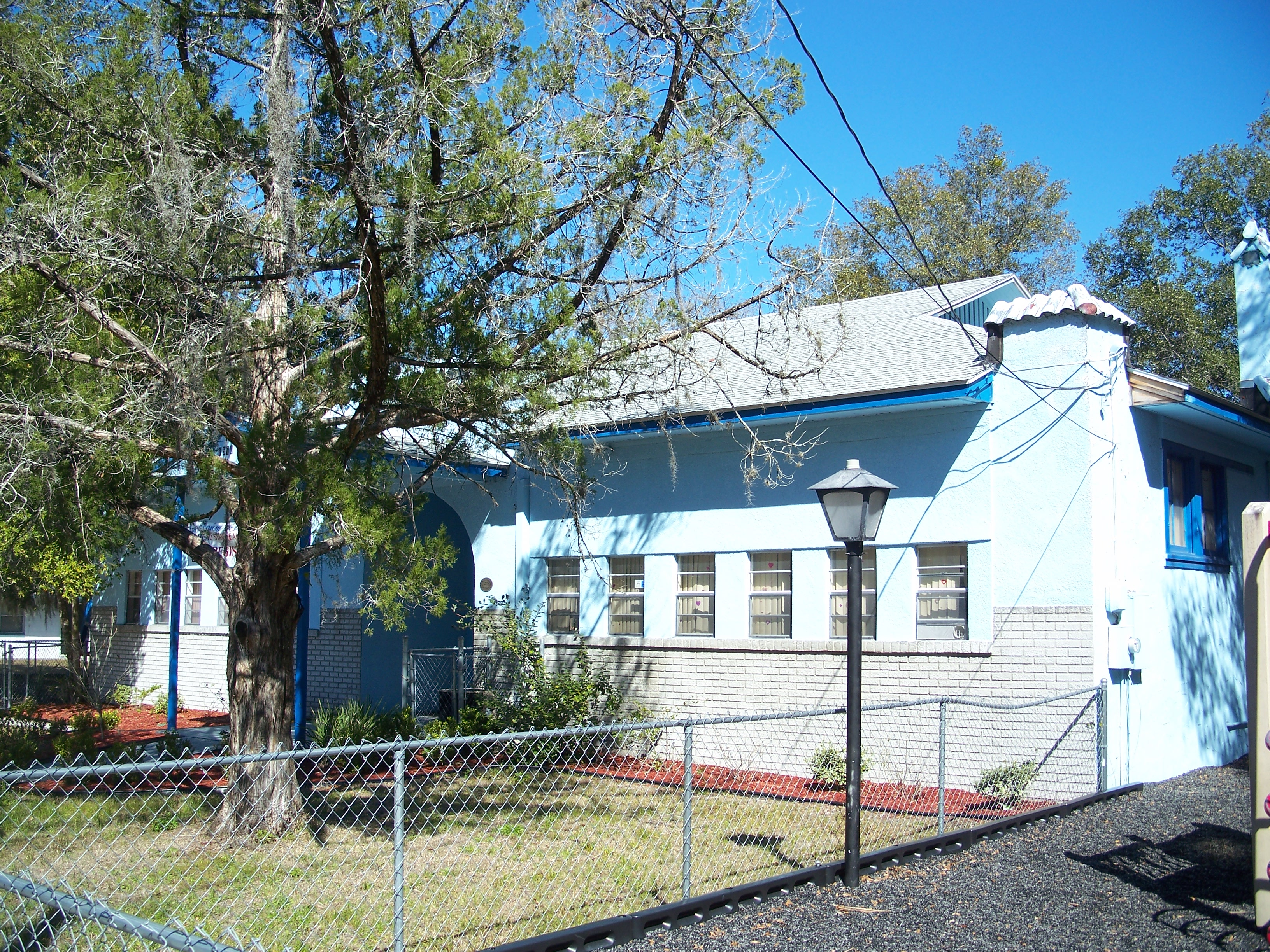 Mount Dora, Florida: Milner-Rosenwald Academy. It has a pending nomination for the National Register of Historic Places.